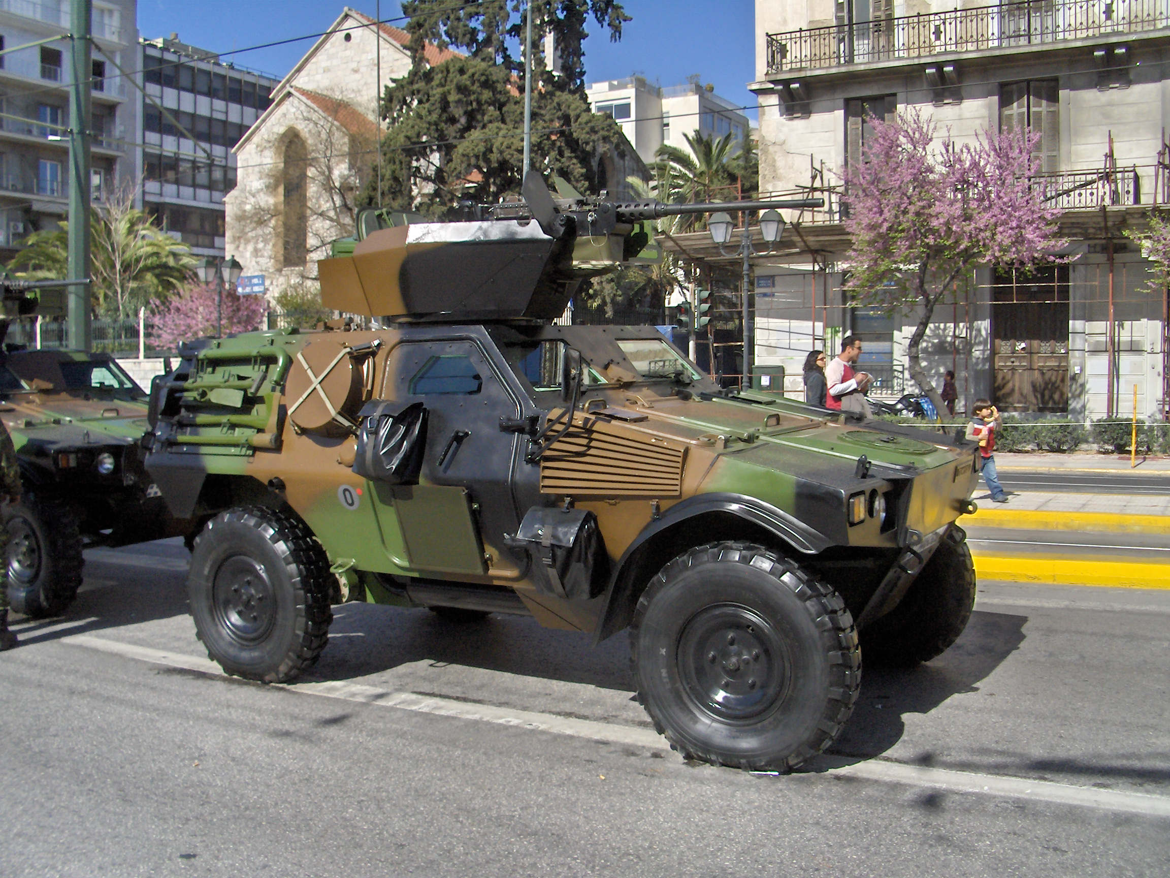 Hellenic Army armoured vehicle at the parade in Athens.